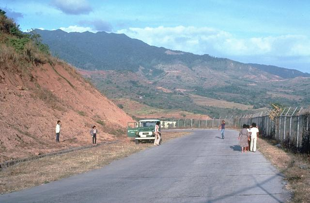 Mount Natib is a massive stratovolcano at the northern end of the Bataan Peninsula, south of Pinatubo volcano. The summit of the volcano, seen here from the WNW, is truncated by a 6 x 7 km caldera. The age of the latest eruption is not known, but is considered to be late Pleistocene or Holocene. Five thermal areas are found in the summit region.